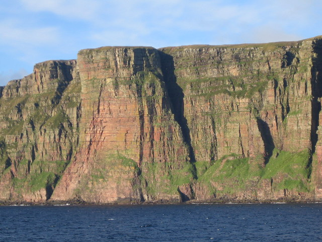 Cliffs NW of St John's Head. Just north of Bre Brough. Cliffs about 300m high. From the ferry. The cliffs consist of middle Devonian sandstones of the Hoy Sandstone Formation, part of the Eday Group